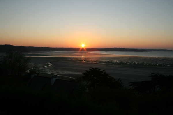 View of the Lieue-de-Grève at sunset